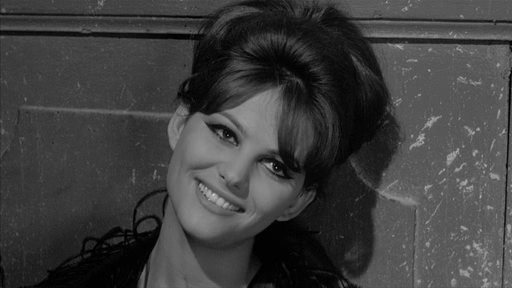 screenshot from the Italian film Otto e mezzo (1963)